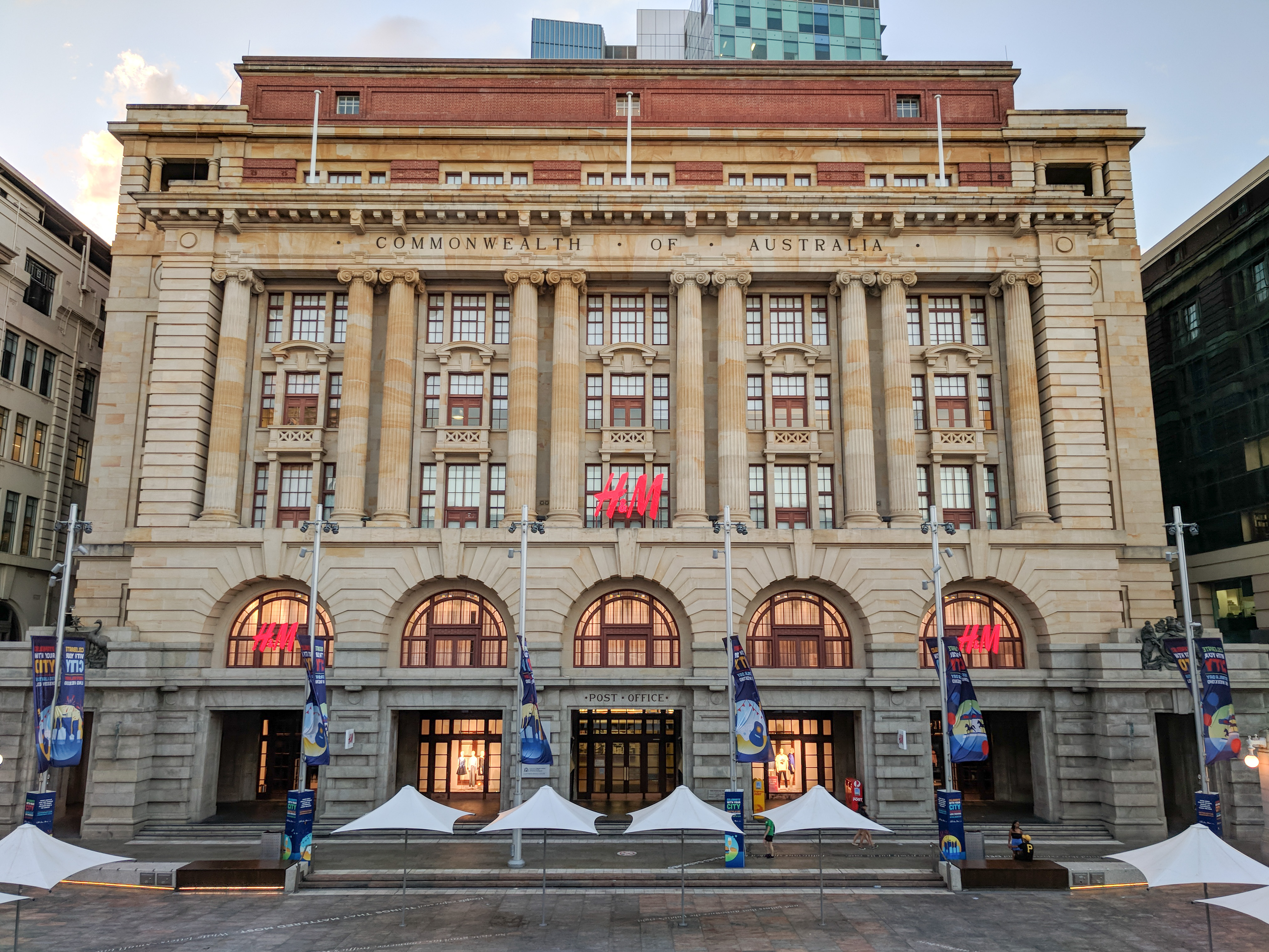 General Post Office, Perth from Forrest Chase